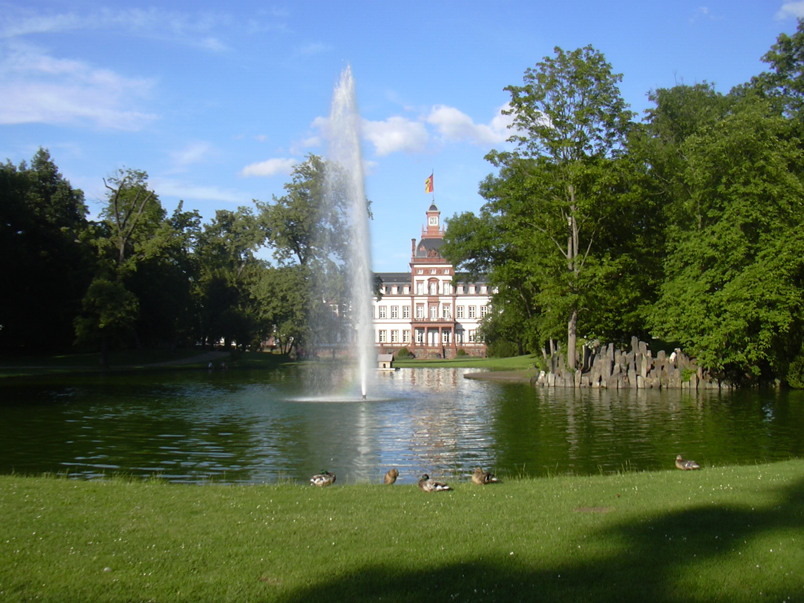 Philippsruhe Castle, near Hanau, Hesse/Germany